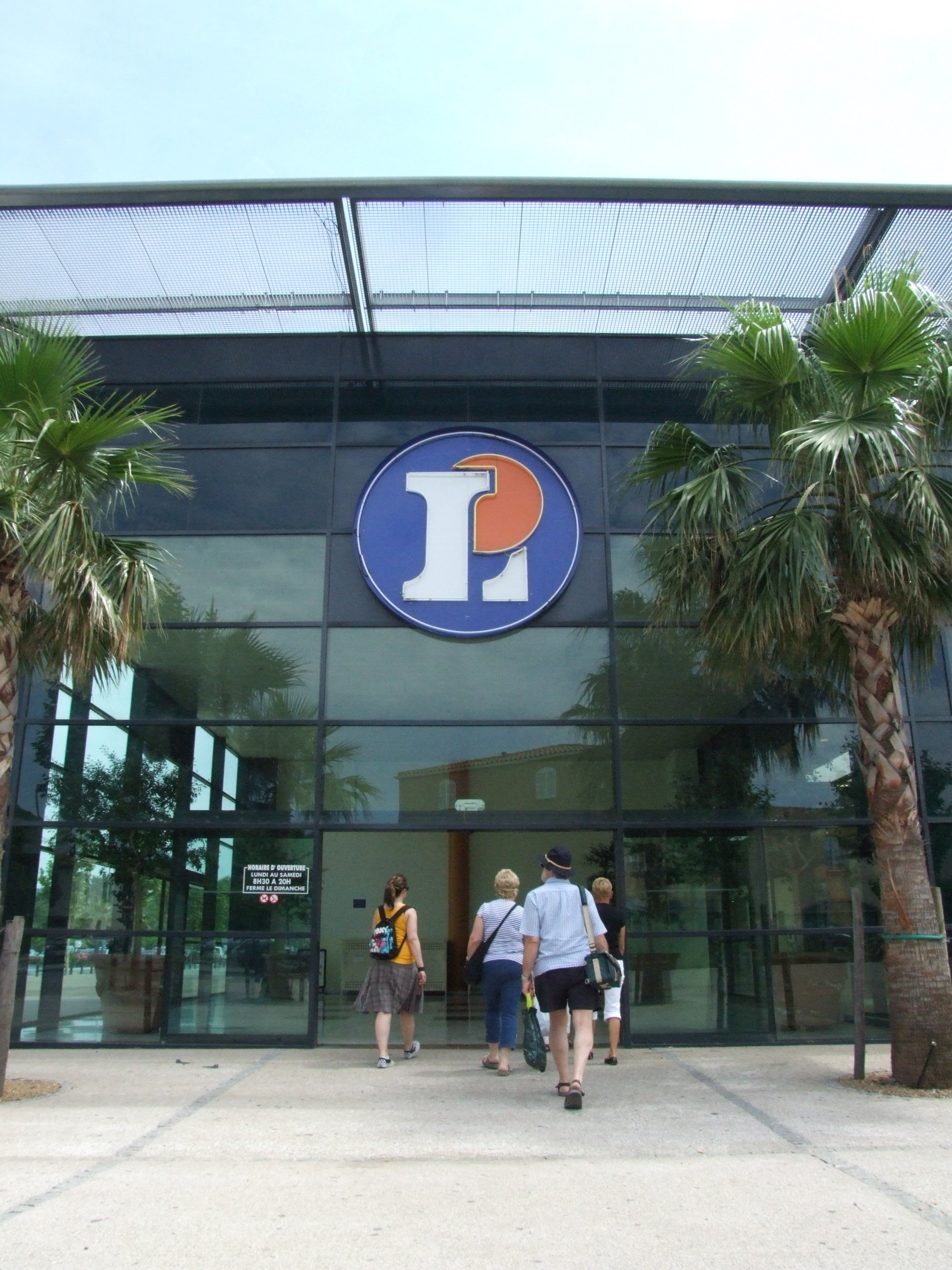 Entrée d'un centre commercial E.Leclerc dans le Var (Provence-Alpes-Côte d'Azur, France).